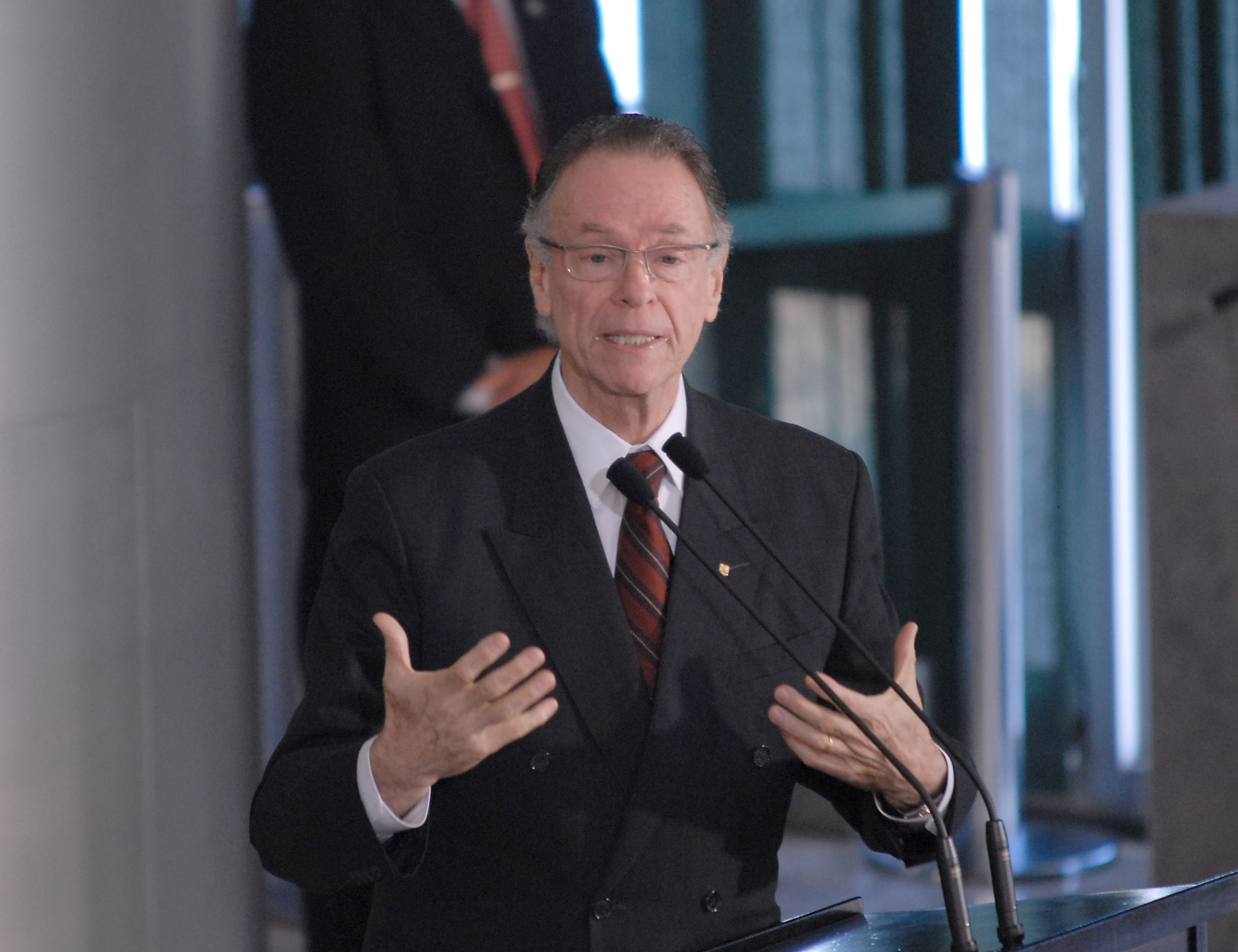 Brazilian Olympic Committee president Carlos Arthur Nuzman.